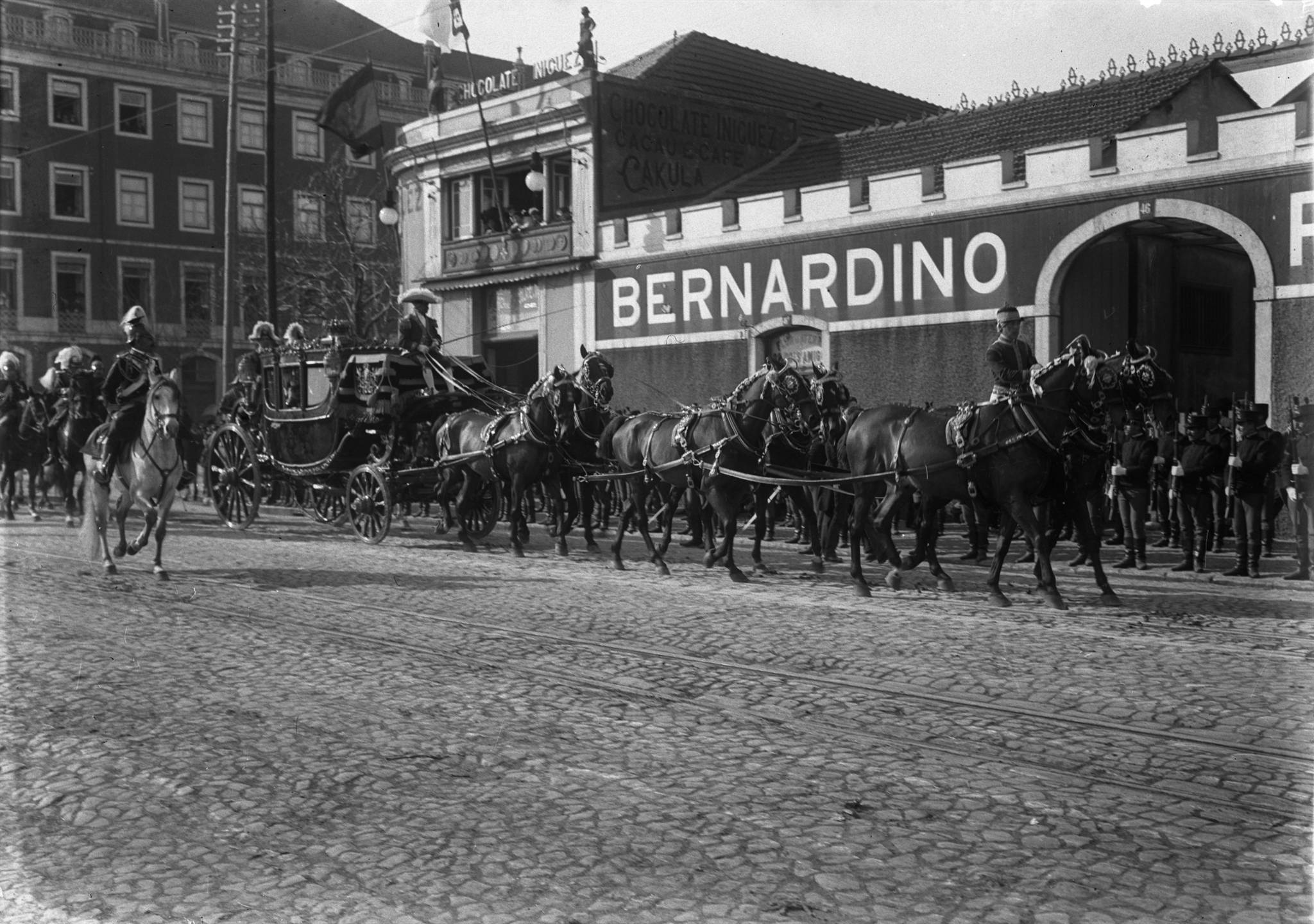 The cortege of the swearing-in of the heir presumptive to the Throne of Portugal, Infante D. Afonso Duke of Porto, in 1910.